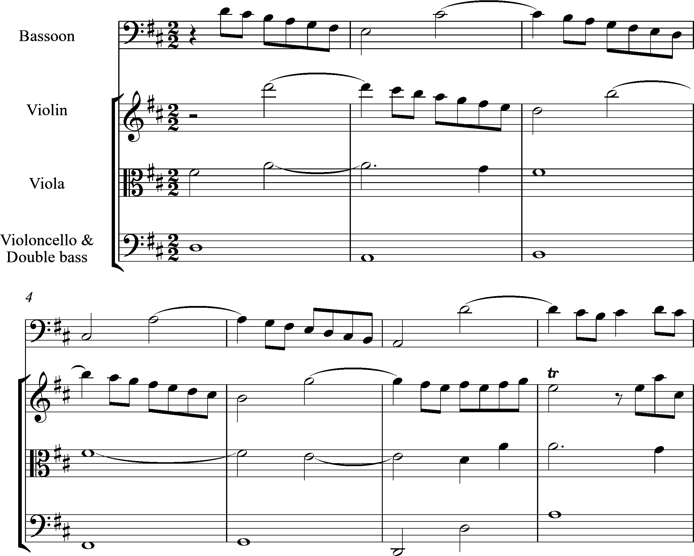 'L'Entree de Polymnie' from Les Boreades by Rameau.